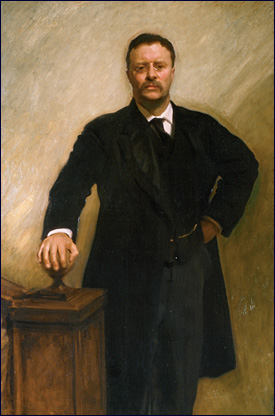 John Singer Sargent, Theodore Roosevelt, 1903, oil on canvas, 58 1/2 × 40 1/2 in., Washington, DC: White House. Theodore Roosevelt's presidential portrait.